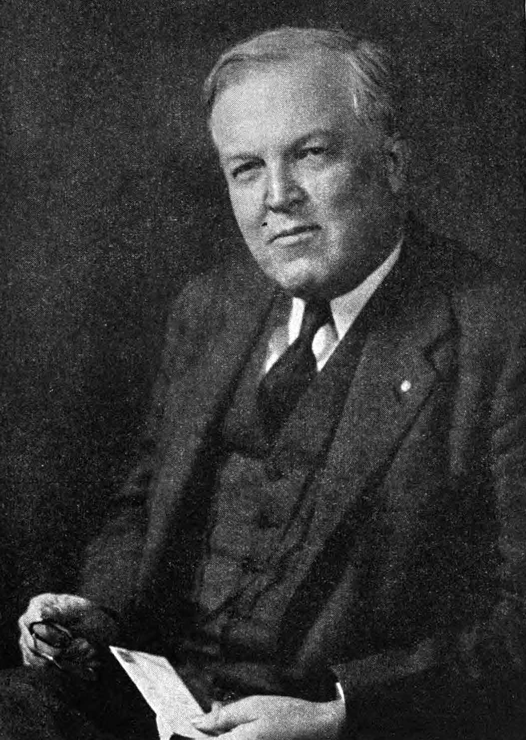 Portrait of American physician Arthur Thomas McCormack